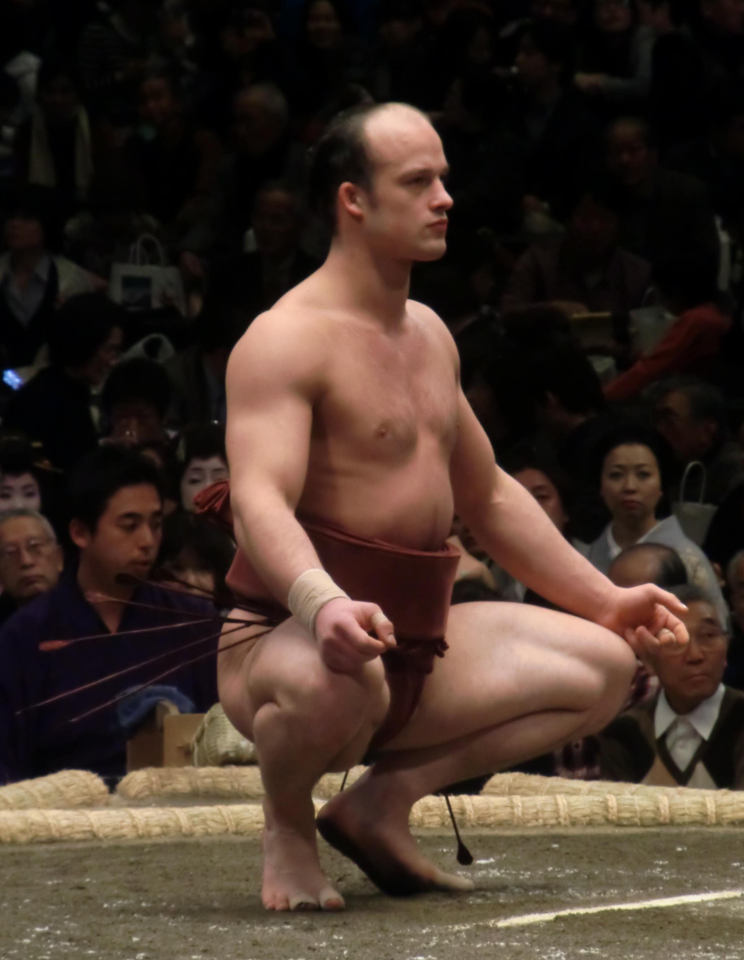 taken at 2012 January tournament